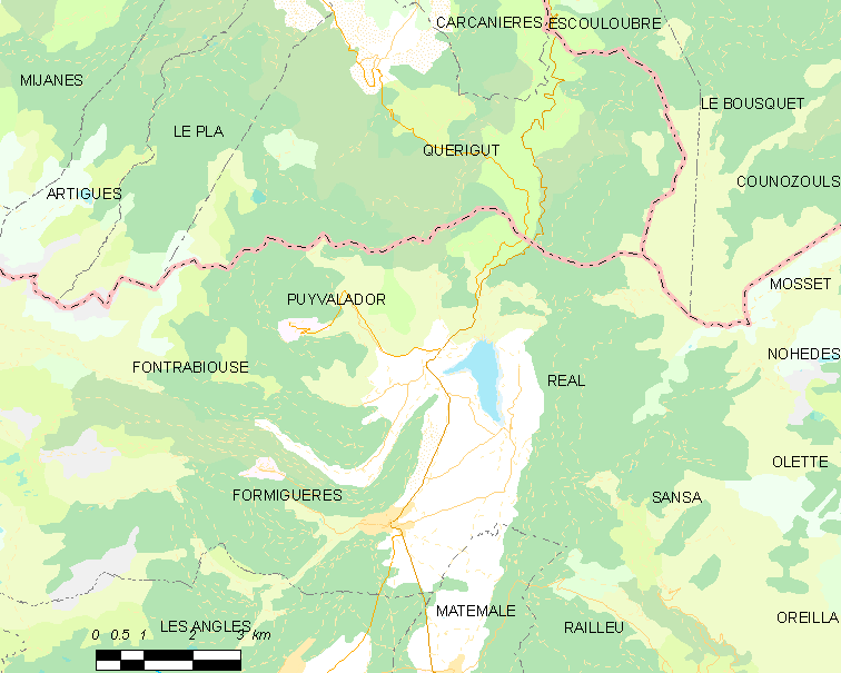 Map of French municipality